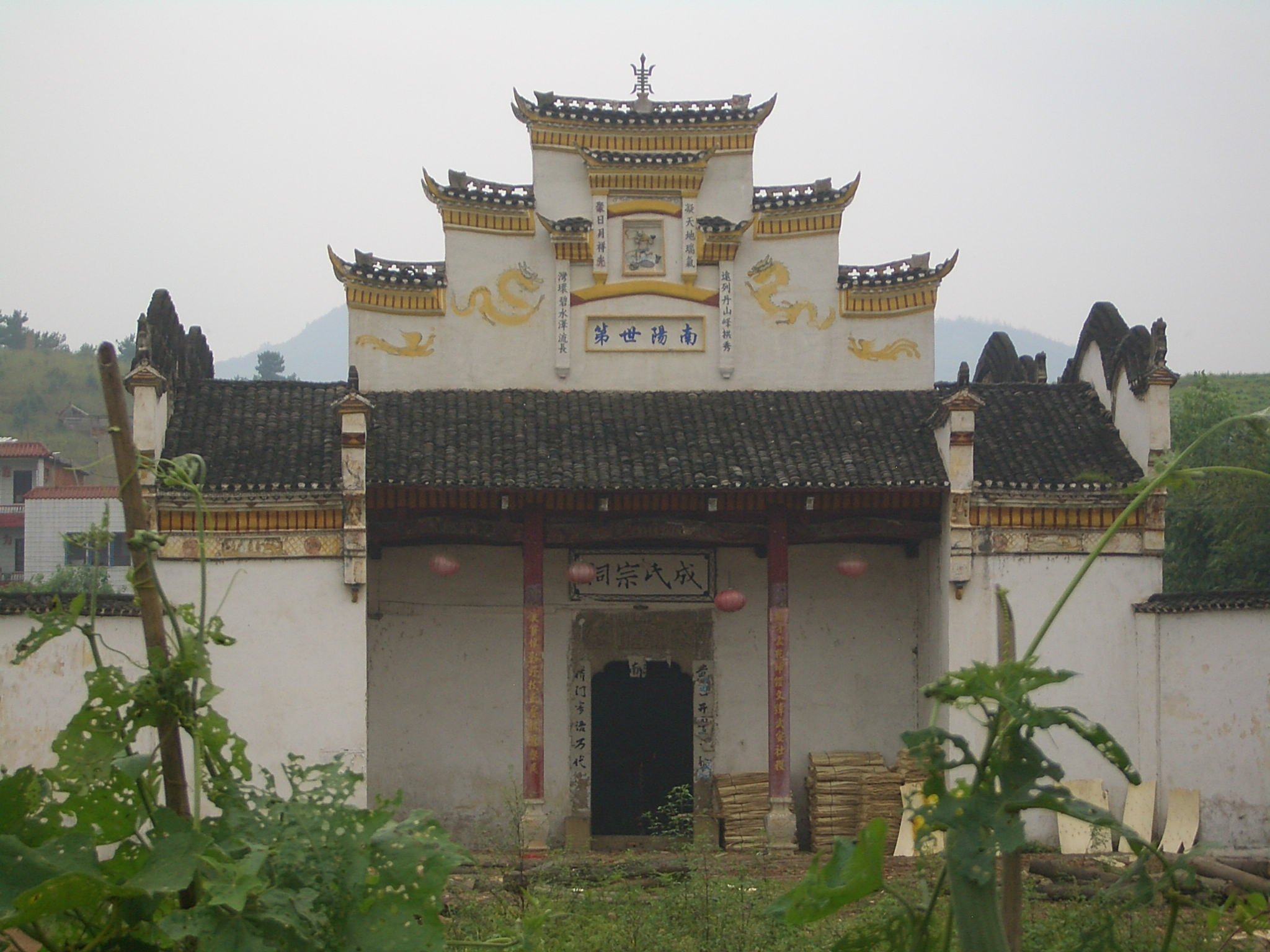 A temple (signed 南阳世第, "Nanyang Shidi" [The house of Nanyang people], and 成氏宗祠 [The Cheng Family Ancestral Hall]) in a village in Yangxin county, a few km to the north of the G316/G106, on the way to Longgang Zhen junction. The temple is being renovated currently; the facade looks new, while the side walls are much older.